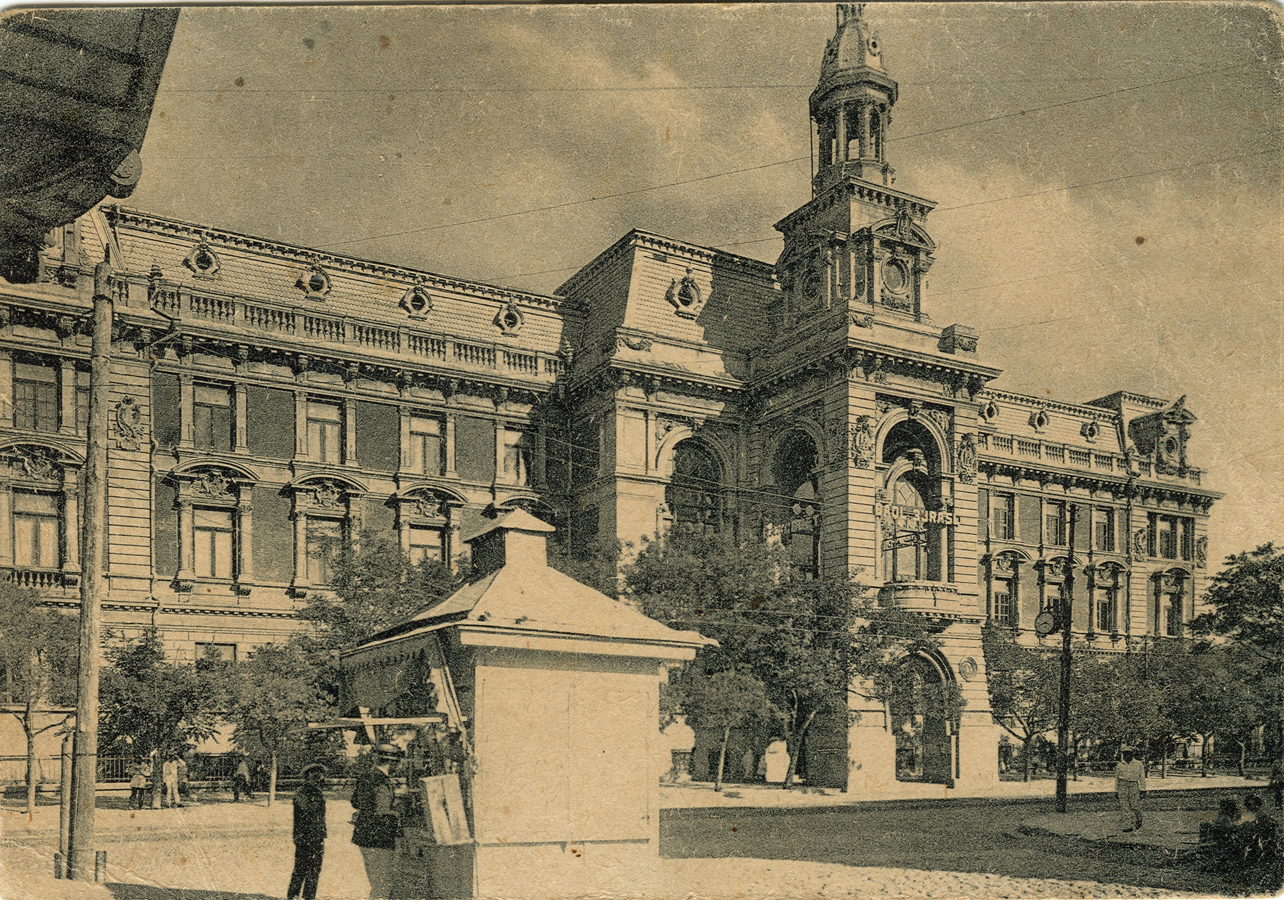 The Baku municipal duma